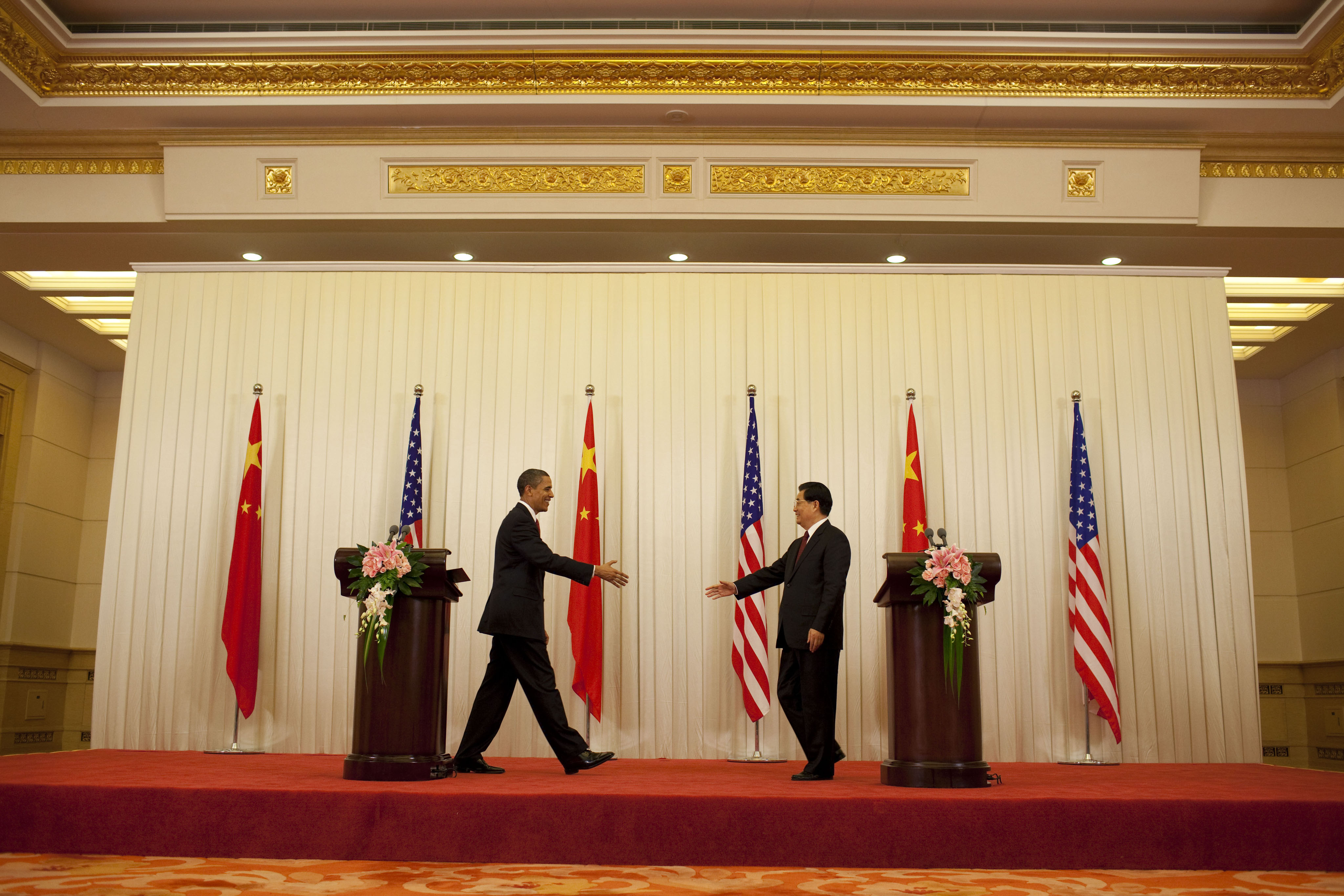 President Barack Obama and President Hu Jintao